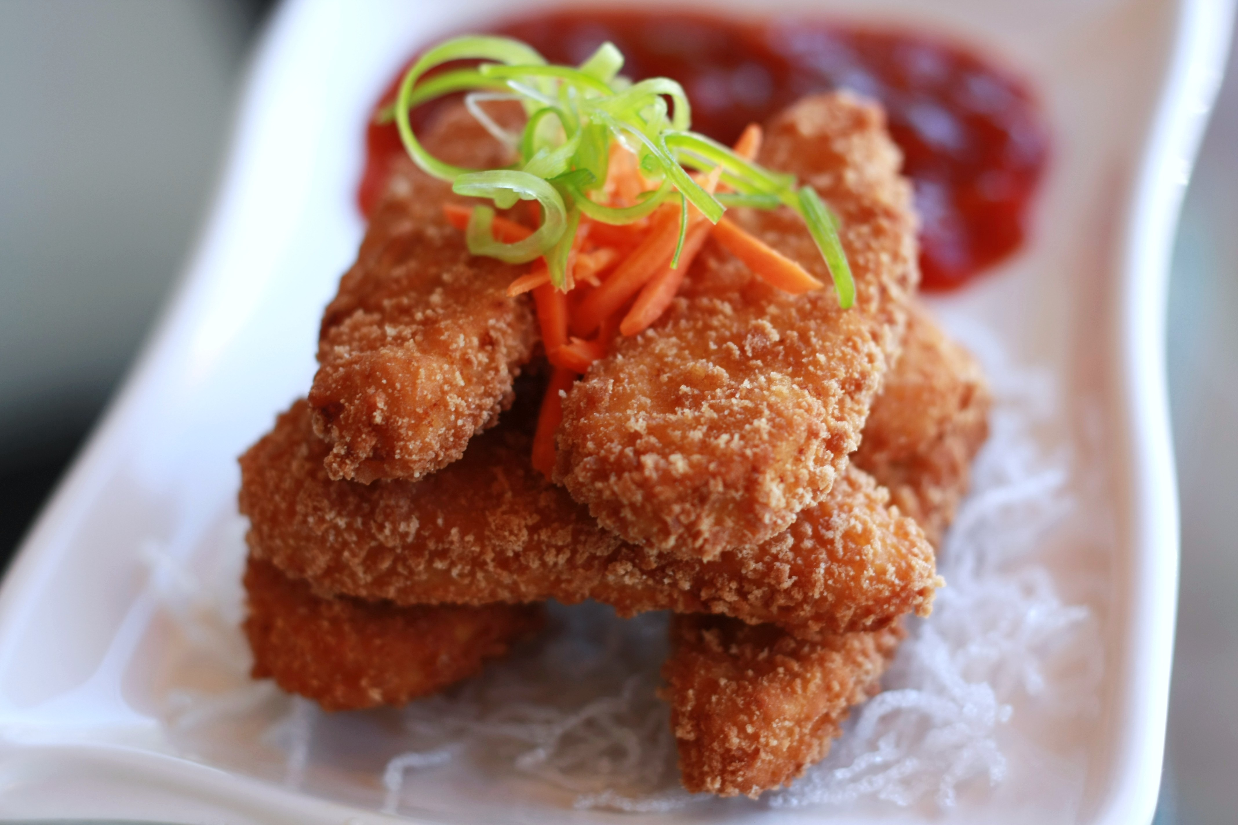 Gardein Crispy Tenders at Loving Hut Restaurant